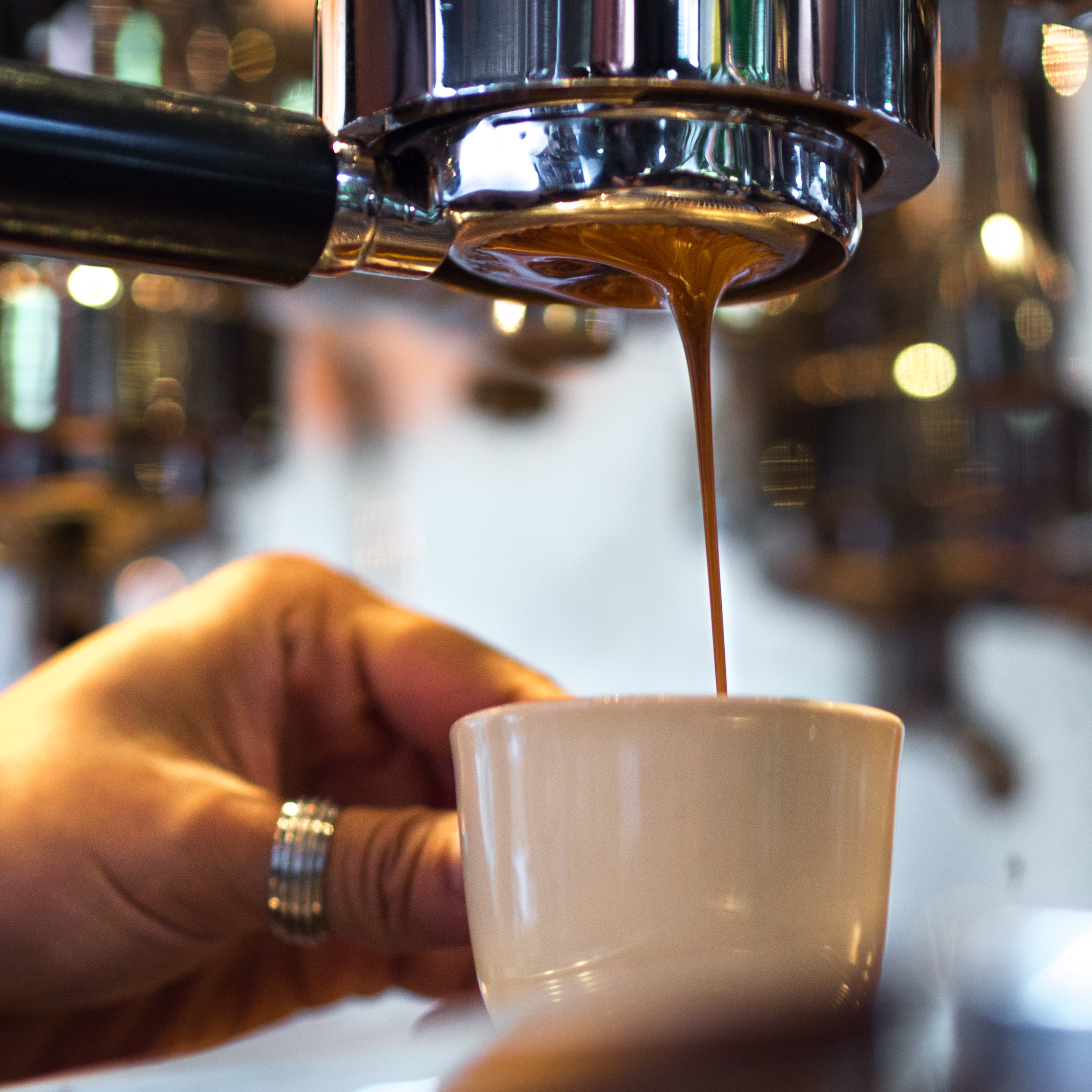 Making an espresso with a "naked" portafilter at Akha Ama "La Fattoria" in Chiang Mai.